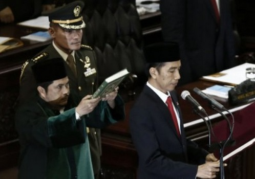 Joko Widodo's presidential oath, during his inauguration ceremony, 2014-10-20